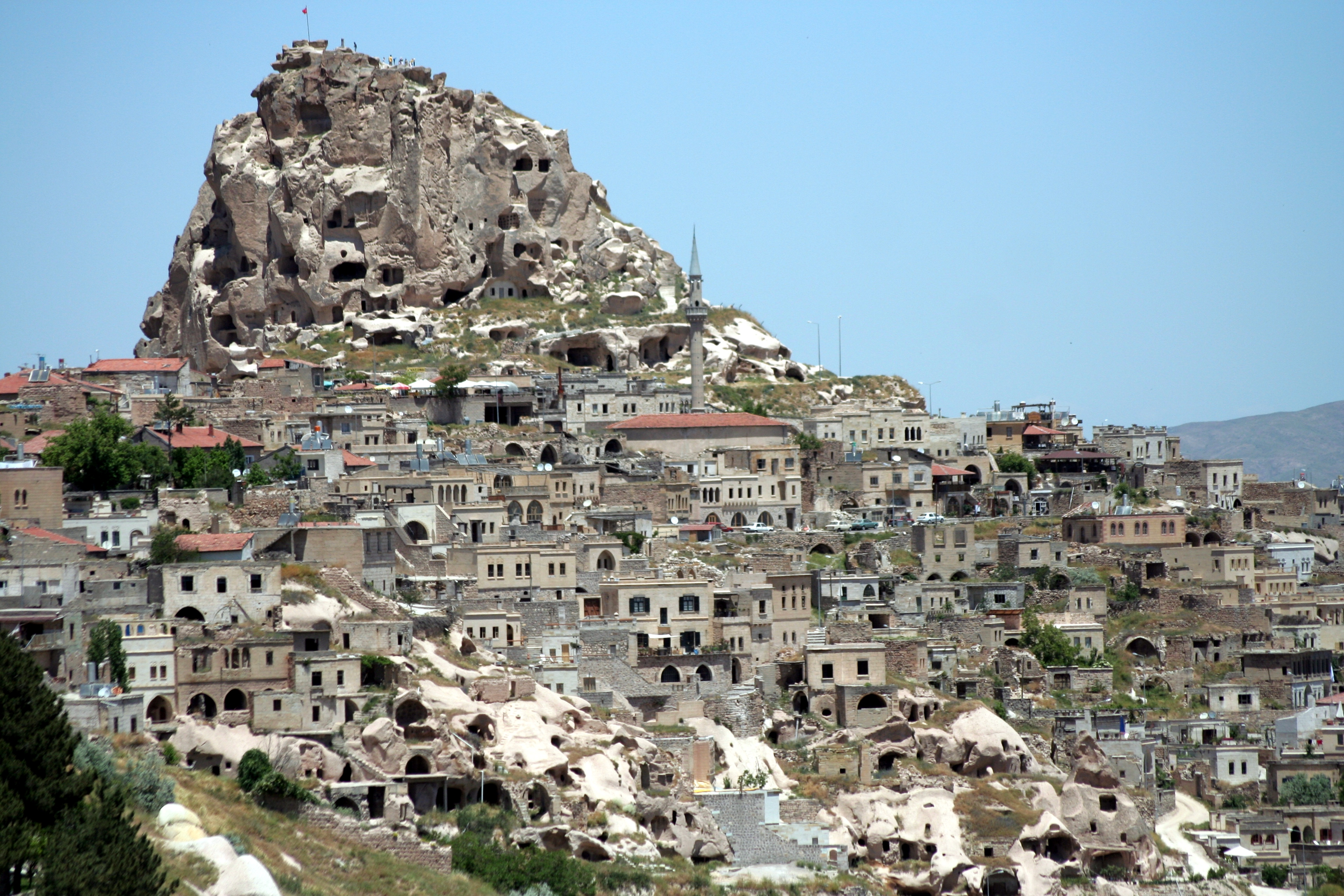 View of Uçhisar, Cappadocia, Turkey.